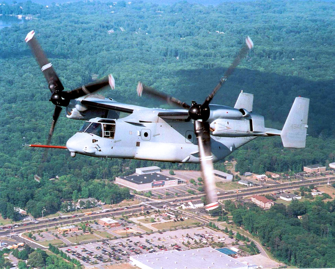 Lexington Park, MD (May 29, 2002) -- The V-22 "Osprey" resumes test flights at the Patuxent River Naval Air Station in Southern Maryland. The test flight was the first since the Pentagon grounded the aircraft in December 2000, following two fatal crashes eight months apart. The U.S. military wants to buy a total of 458 Ospreys for three services by 2013, with the principle customer being the U.S. Marine Corps. U.S. Navy photo by Vernon Pugh. (RELEASED